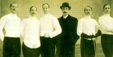 Italian Team Sabre at the 1908 Summer Olympics (from left Marcello Bertinetti, Sante Ceccherini, Alessandro Pirzio-Biroli, a manager of the team, Abelardo Olivier and Riccardo Nowak)